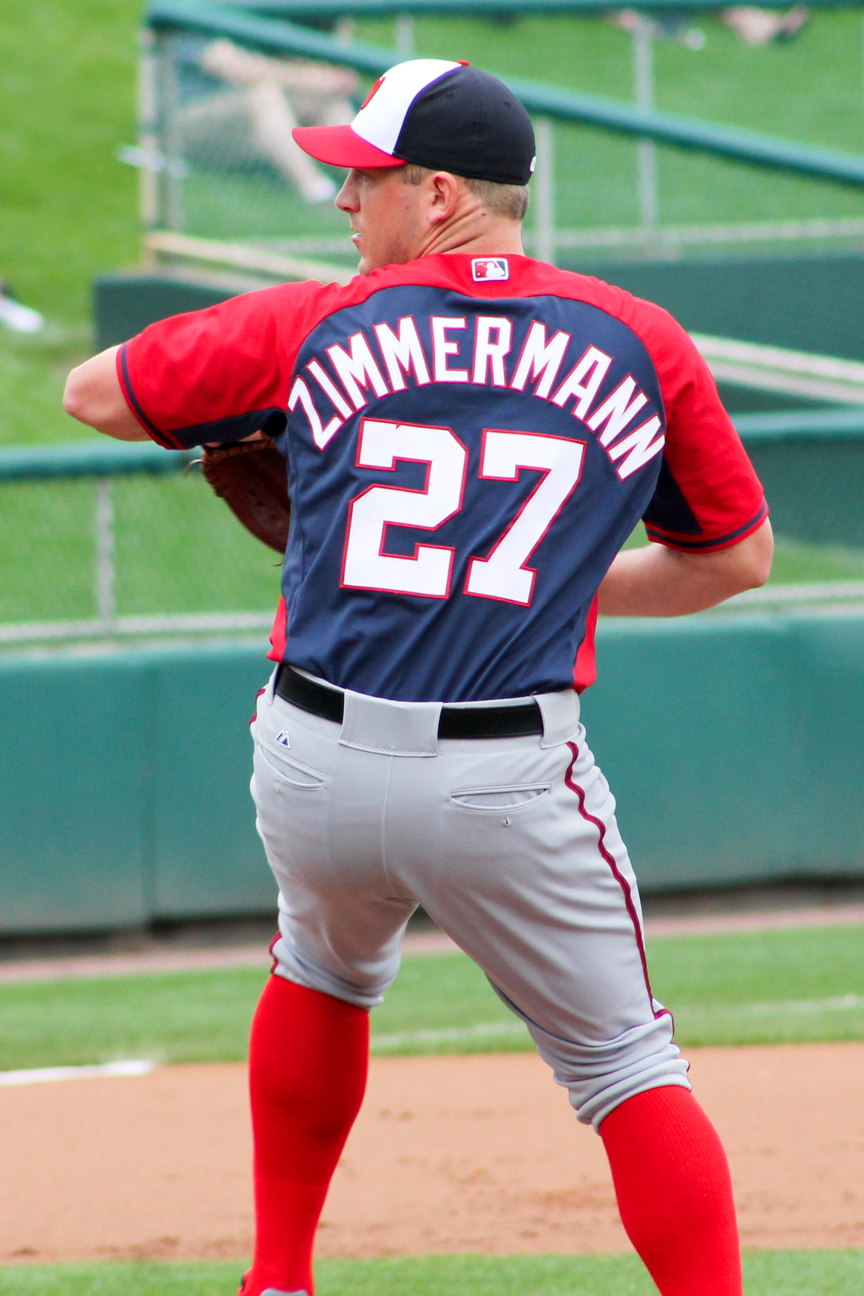 Professional baseball pitcher Jordan Zimmermann at spring training in March 2015.